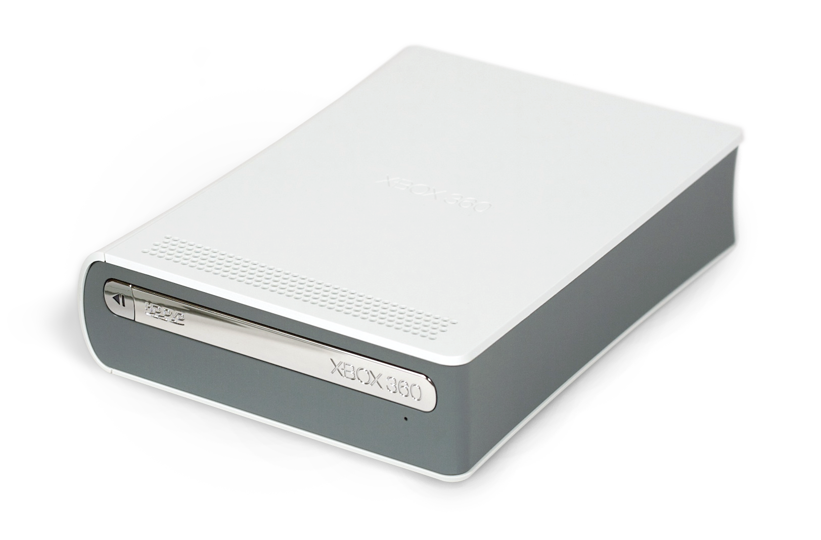 Xbox 360 HD-DVD drive.